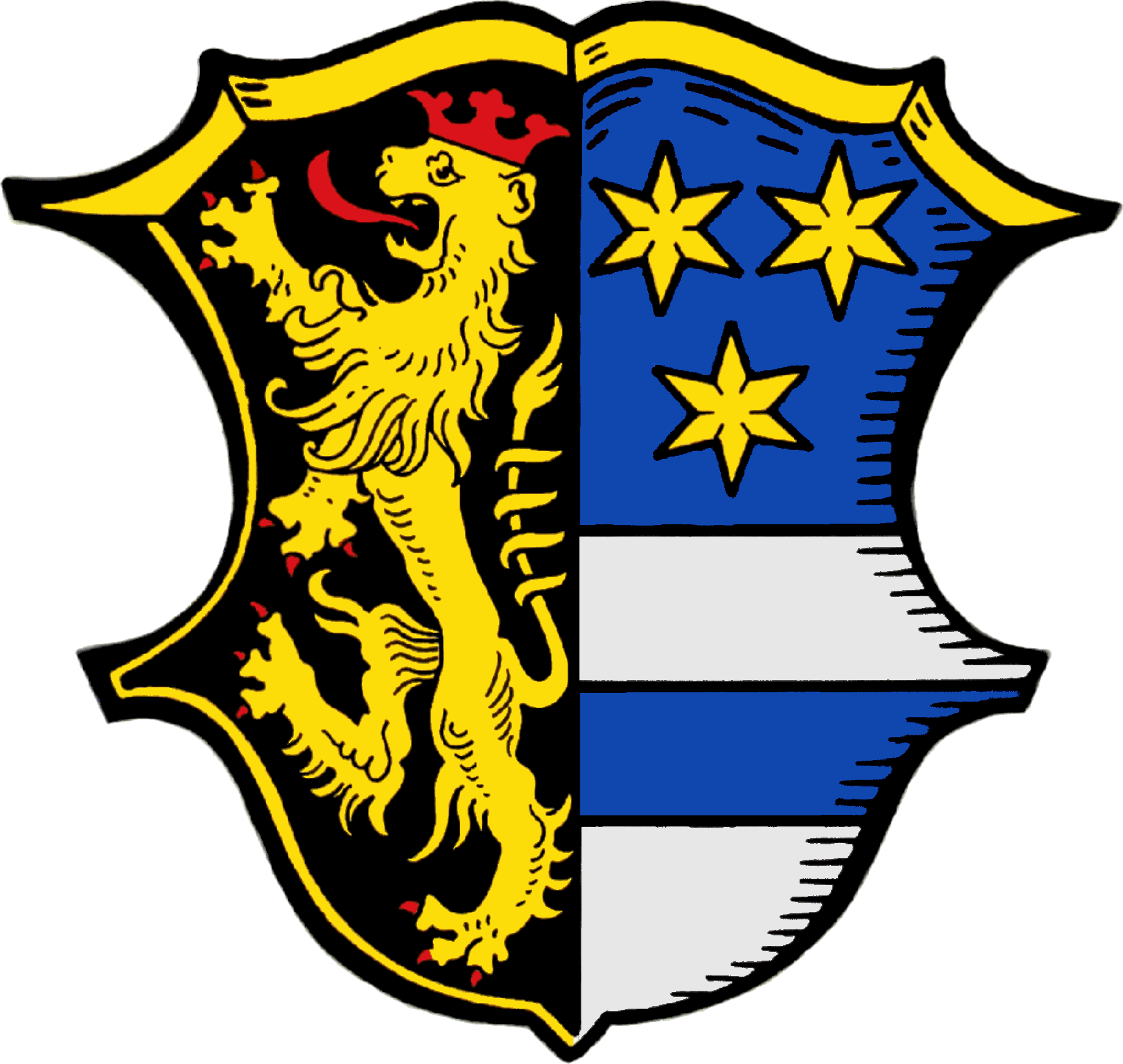 The arms were granted on December 22, 1954 and confirmed on March 22, 1977. The lion is the lion of the Pfalz, as a large part of the area was for many centuries ruled by the Counts of the Pfalz-Sulzbach. The three stars are taken form the arms of the Princes of Lobkowitz, who owned the County Störnstein in the district. The bars are the arms of the Counts of Leuchtenberg, who also had many possessions in the area, until they became extinct in 1647.